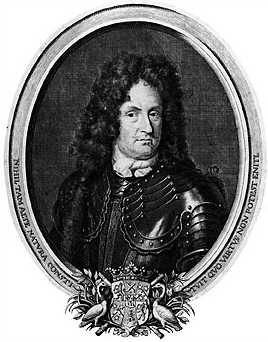 Erik Dahlbergh from the bok Suecia antiqua et hodierna.